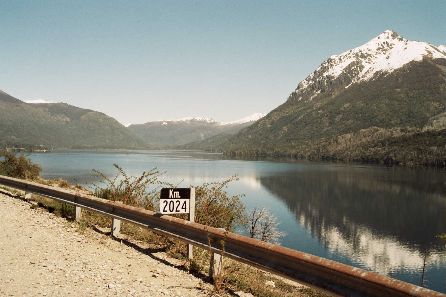 KM 2024 of National Road no, 40, near Lake Gutierrez, Rio Negro Province